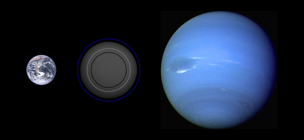 Comparison of several possible sizes for the exoplanet PSR B1257+12 C with the Solar System planets Earth and Neptune, using approximate models of planetary radius as a function of mass[1] for several possible compositions, based on mass reported in the Open Exoplanet Catalogue[2] as of 2010-09-30. Models include: water world with a rocky core, composed of 75% H2O, 3% Fe, 22% MgSiO3 hypothetical pure water (ice) planet, the largest size for PSR B1257+12 C without a significant H/He envelope rocky terrestrial "Earth-like" planet, composed of 67% Fe, 32.5% MgSiO3 hypothetical pure iron planet, PSR B1257+12 C's theoretical smallest size PSR B1257+12 C is not likely to be smaller than the iron planet, and will be considerably larger than the water planet if significant H or He is present. For non-transiting planets, all modeled sizes will be underestimates to the extent that the planet's actual mass is larger than the reported minimum mass. ↑ Seager, S.; M. Kuchner, C. A. Hier-Majumder and B. Militzer (2007). "Mass–radius relationships for solid exoplanets". The Astrophysical Journal 669: 1279–1297. Retrieved on 2010-08-27. ↑ Open Exoplanet Catalogue (2010-09-30). Retrieved on 2010-09-30.